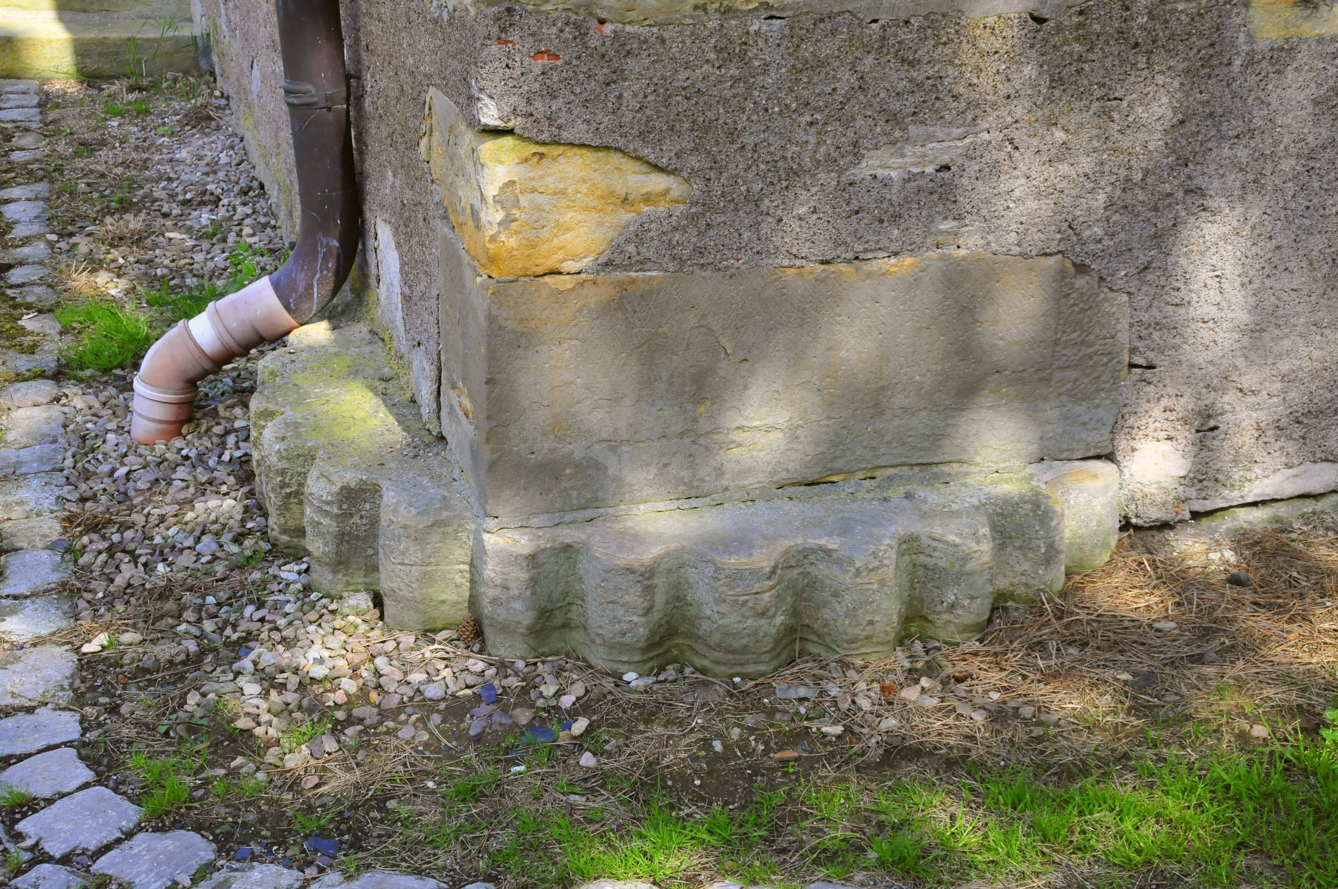 Eschenbergen, church, basic stone of tower: millstone of Waid-mill